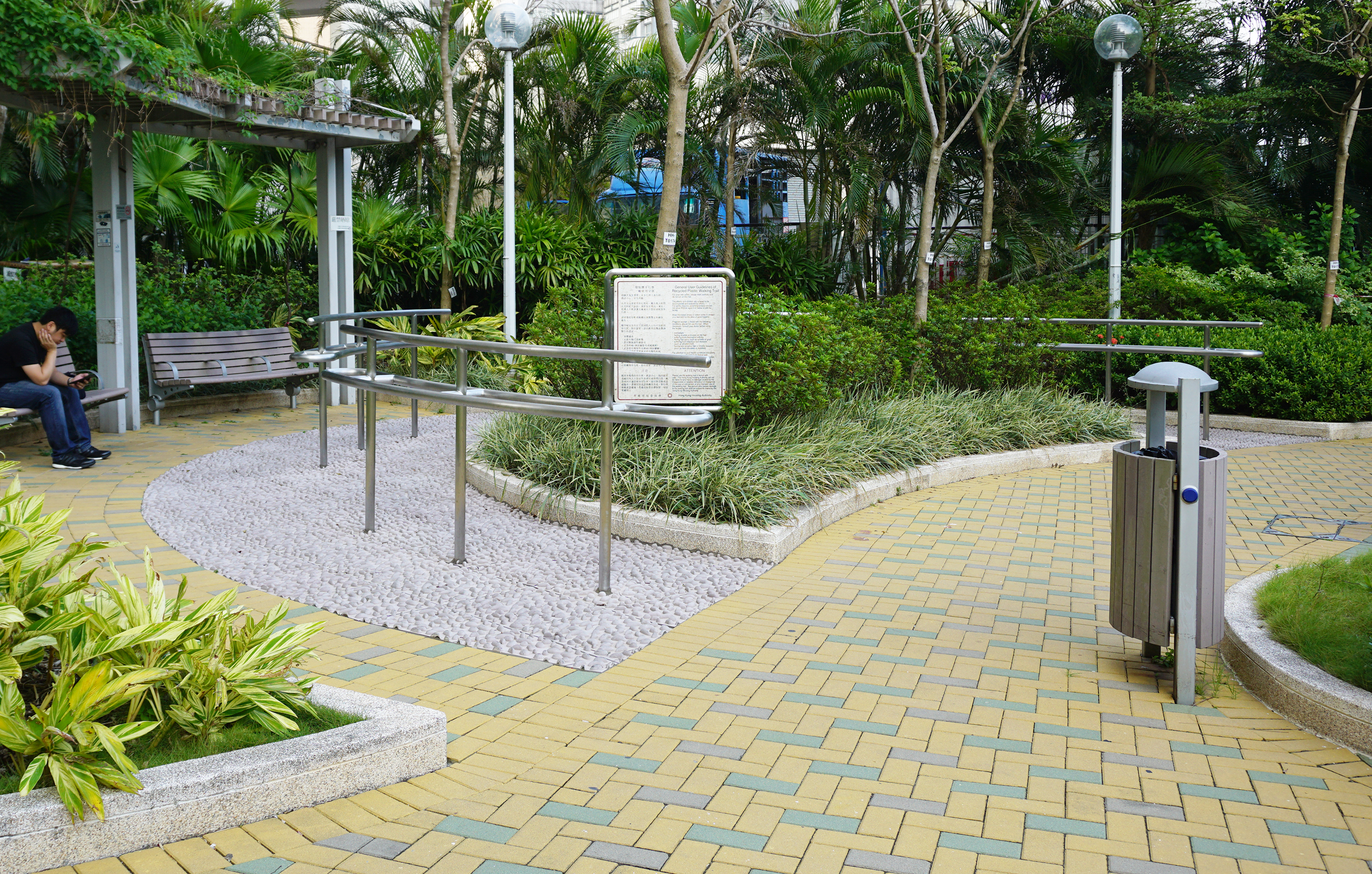 Hung Hom Estate in Whampoa, Hong Kong.